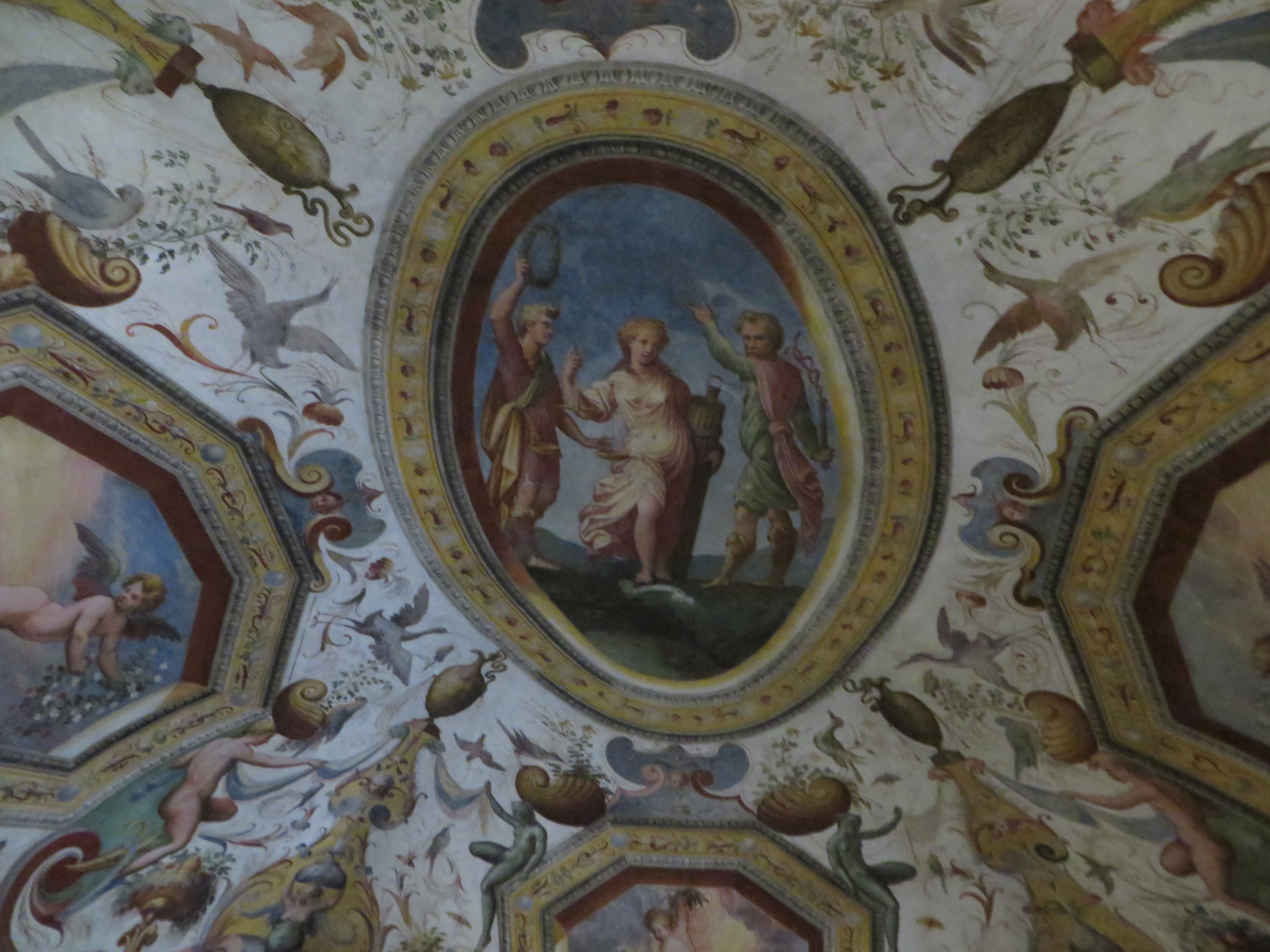 Rossi Castle San Secondo13